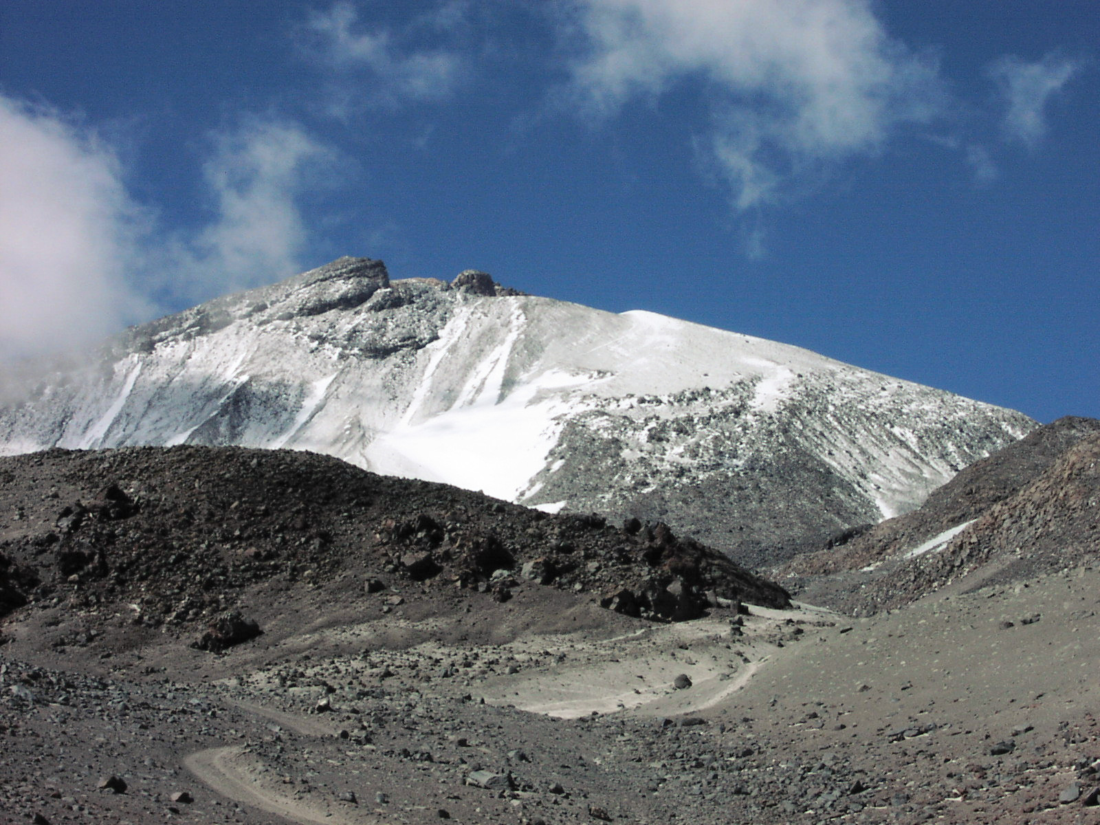 Ojos del Salado as seen from the ascent to hut Refugio Tejos, Chile, February 2004.